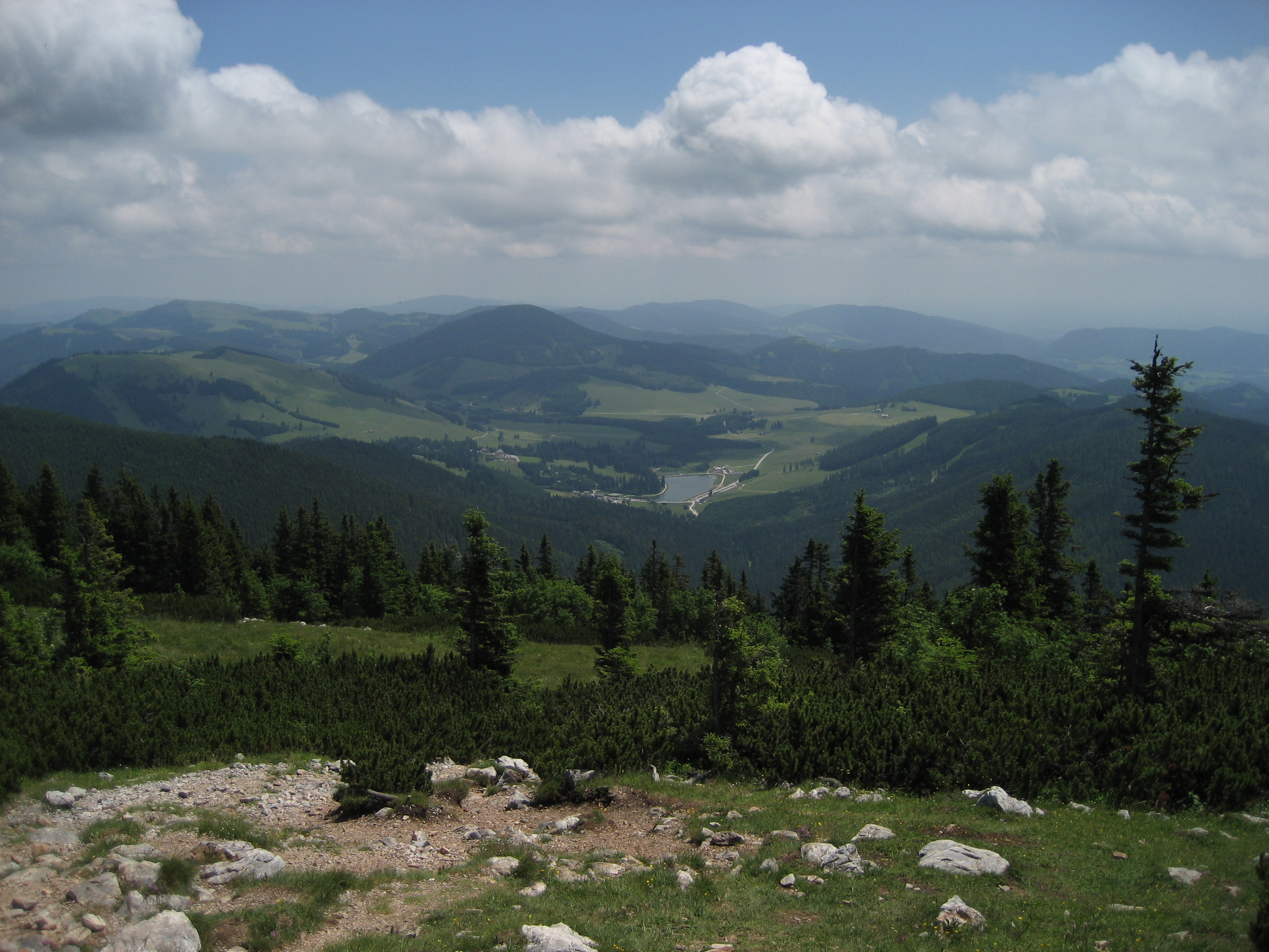 Teichalm in Styria, Austria